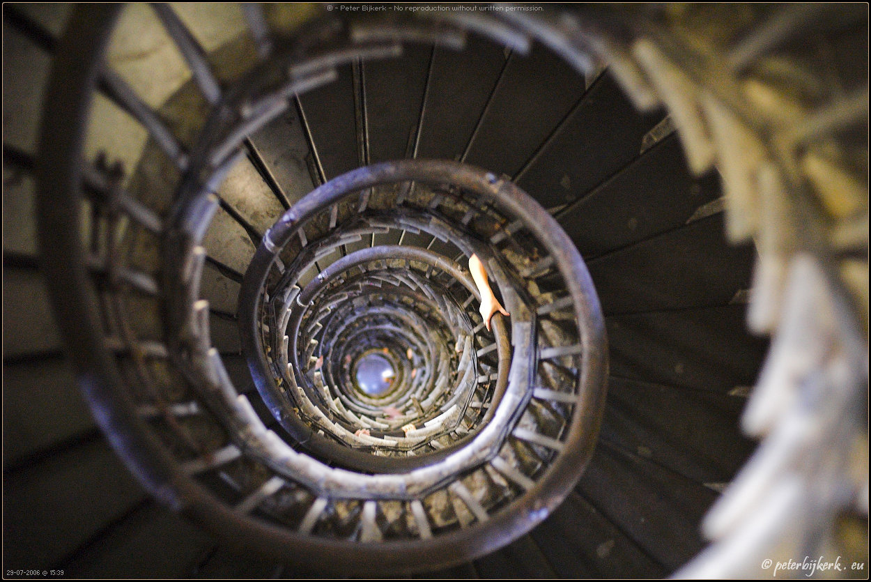 The winding stairs of the Monument to the Great Fire of London